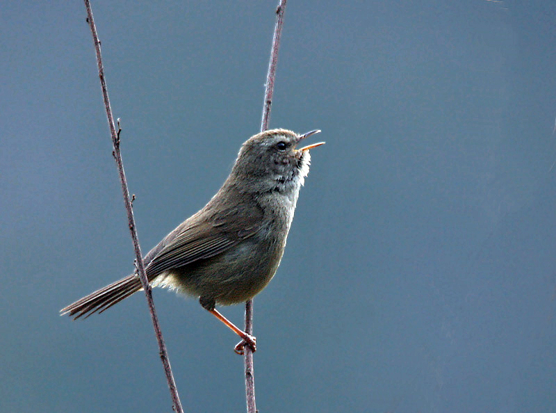 Brownish-flanked Bush Warbler Cettia fortipes at Guna Pani (8000 ft.) in Kullu District of Himachal Pradesh, India. Not a colourful looking bird. But its call of initial low of "wheeee........." followed by quick & quite loud "chee-wee-you", remains an enigma to most of the trekkers. They will point it out for direction & Id. But it is hardly to be seen despite great efforts. It will call from inside the bush in front of you, but one will be unable to see it. Over the years I had given up looking for this bird. It calls upto about 10000 ft. & its call itself is sufficient for its Id. I was fortunate enough this time to click it at Guna Pani (8500 ft.) with clear view during Sar Pass Trek in Himachal.